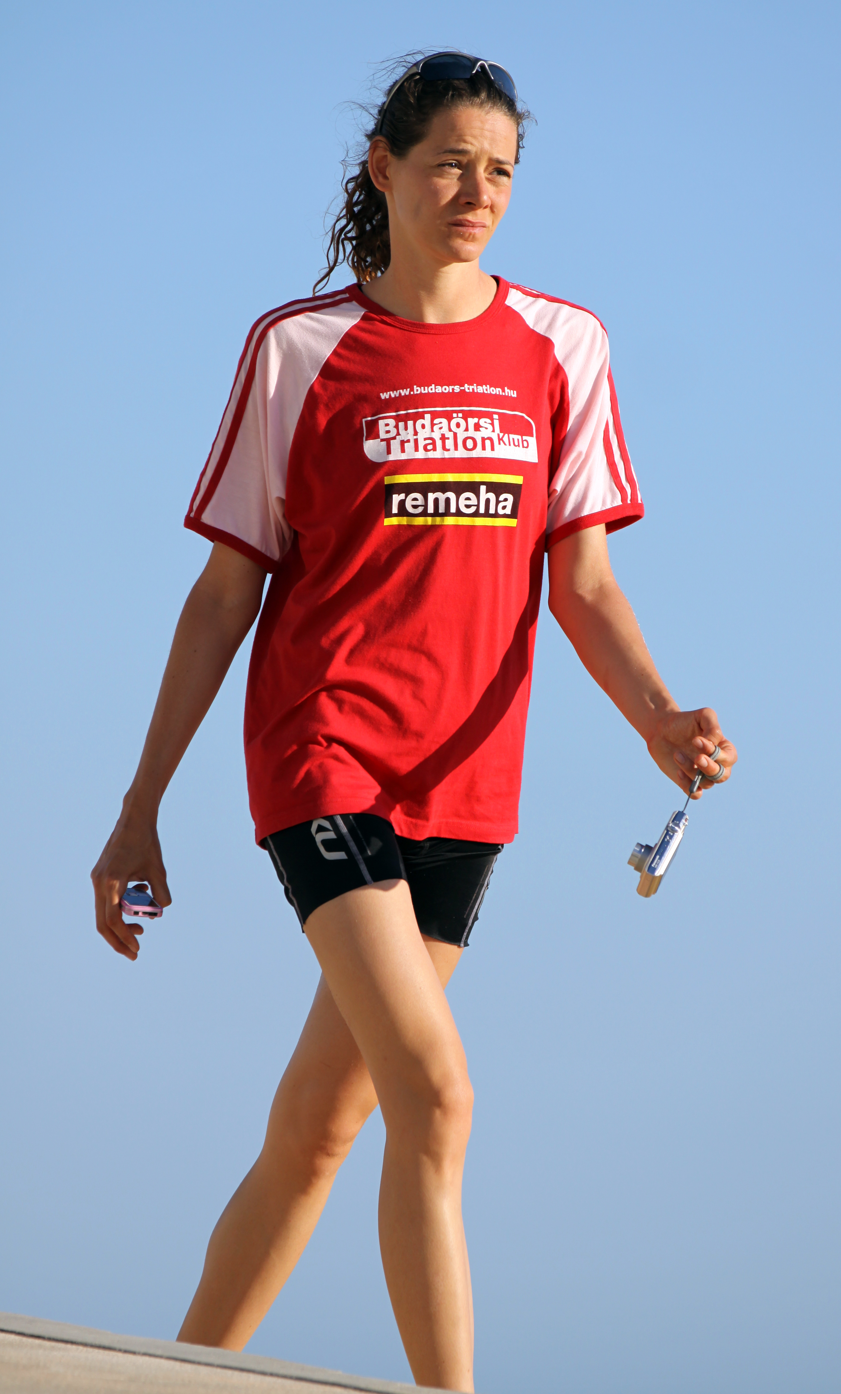 Margit VANEK immediately after the European Cup elite triathlon in Quarteira, 2011.